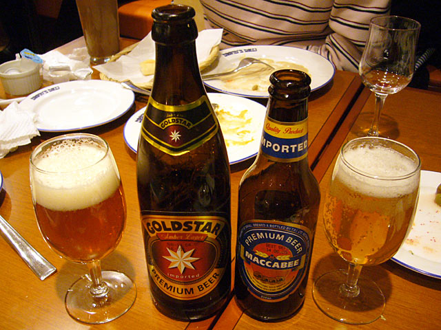 Both of Maccabee Beer and Goldstar Beer are imported from Israel. I like Goldstar which is fruity and Munich-style.